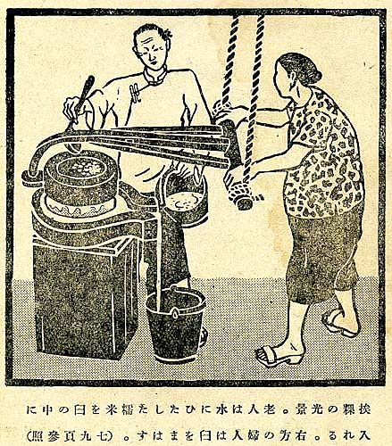 The E-kué（挨粿） mean the traditional milling kué（Kuih 粿）.Taiwanese will E-kué before the Lunar New Year eve.